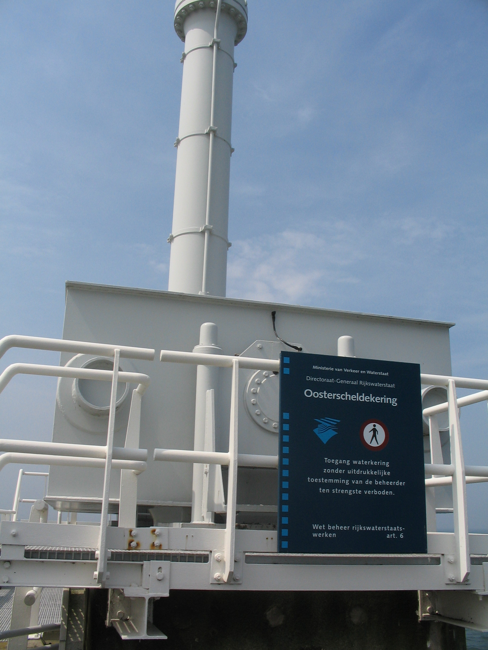 Oosterscheldekering - warning table